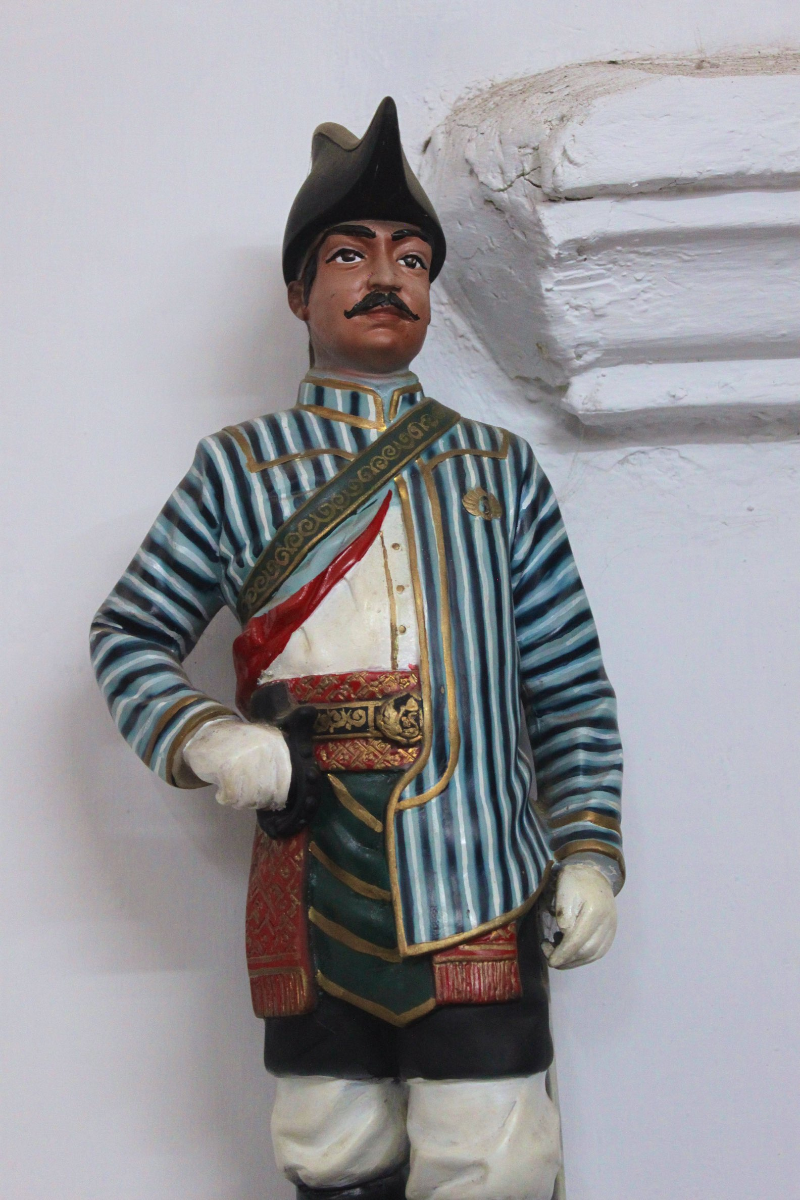 Sculpture of Jogokaryo warrior (Javanese: ꦗꦺꦴꦒꦺꦴꦏꦂꦪꦺꦴ) in the museum of keraton jogja